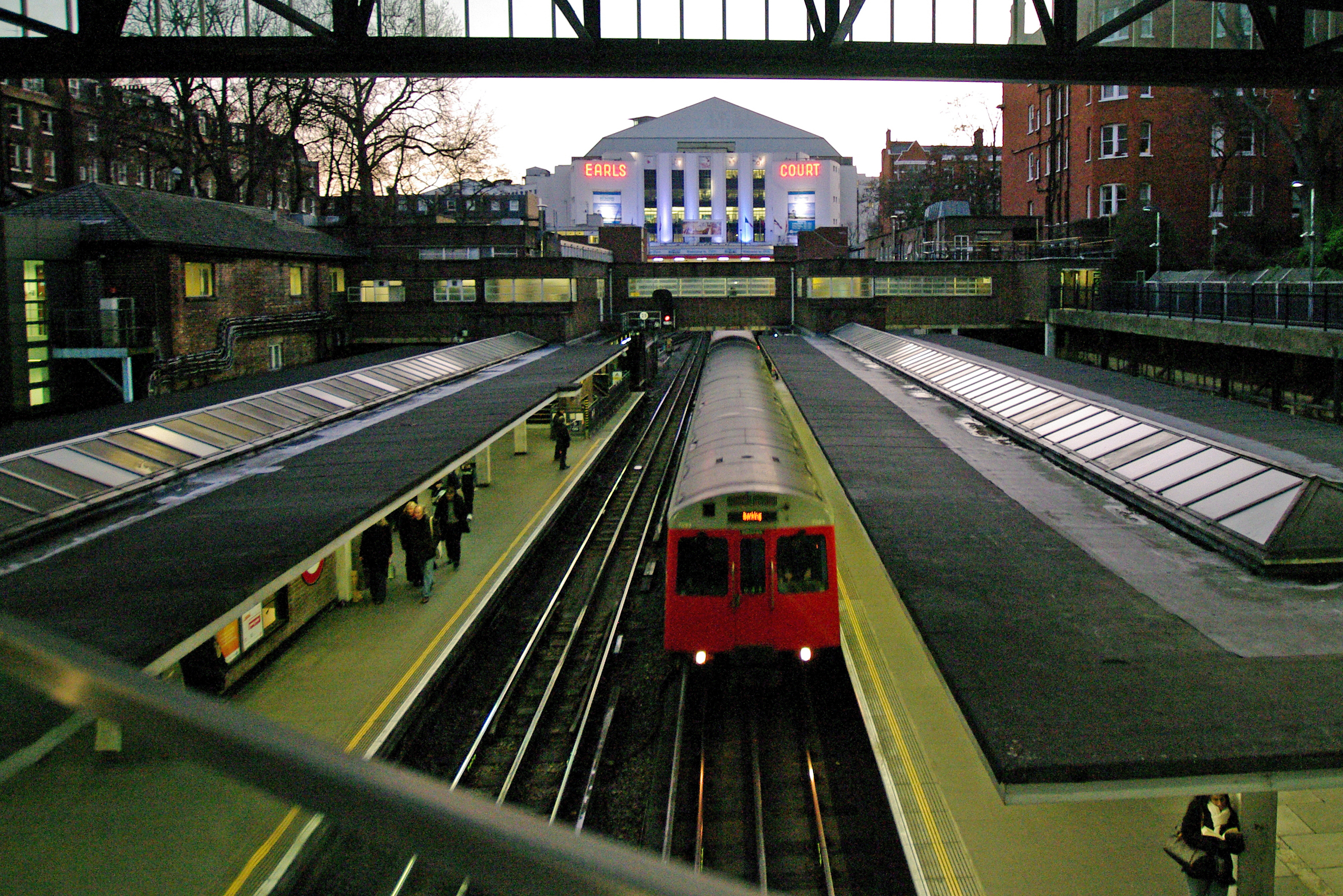 Earls Court tube station, upper level, looking towards the exhibition center